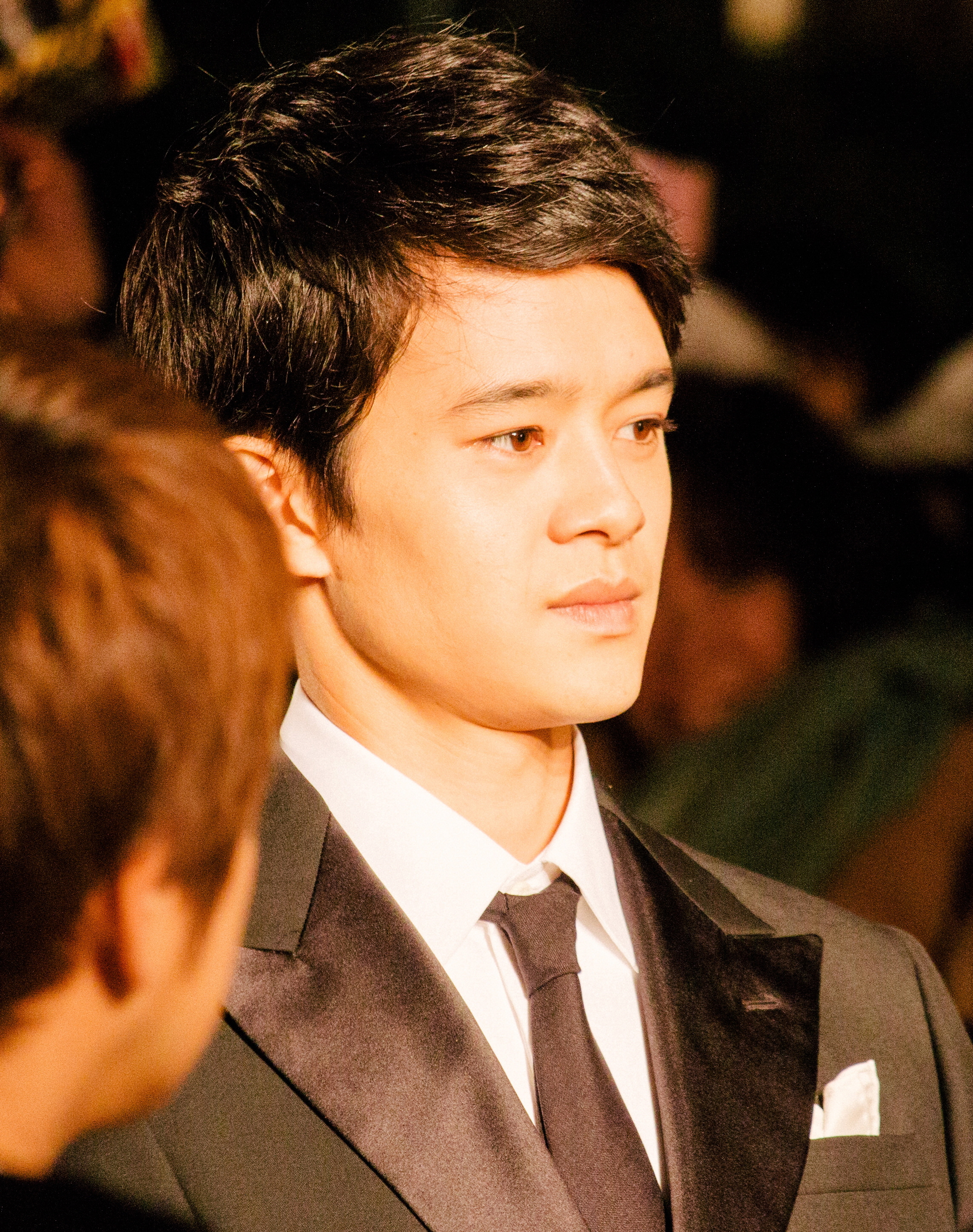 27th Tokyo International Film Festival: Ikematsu Sosuke from Pale Moon